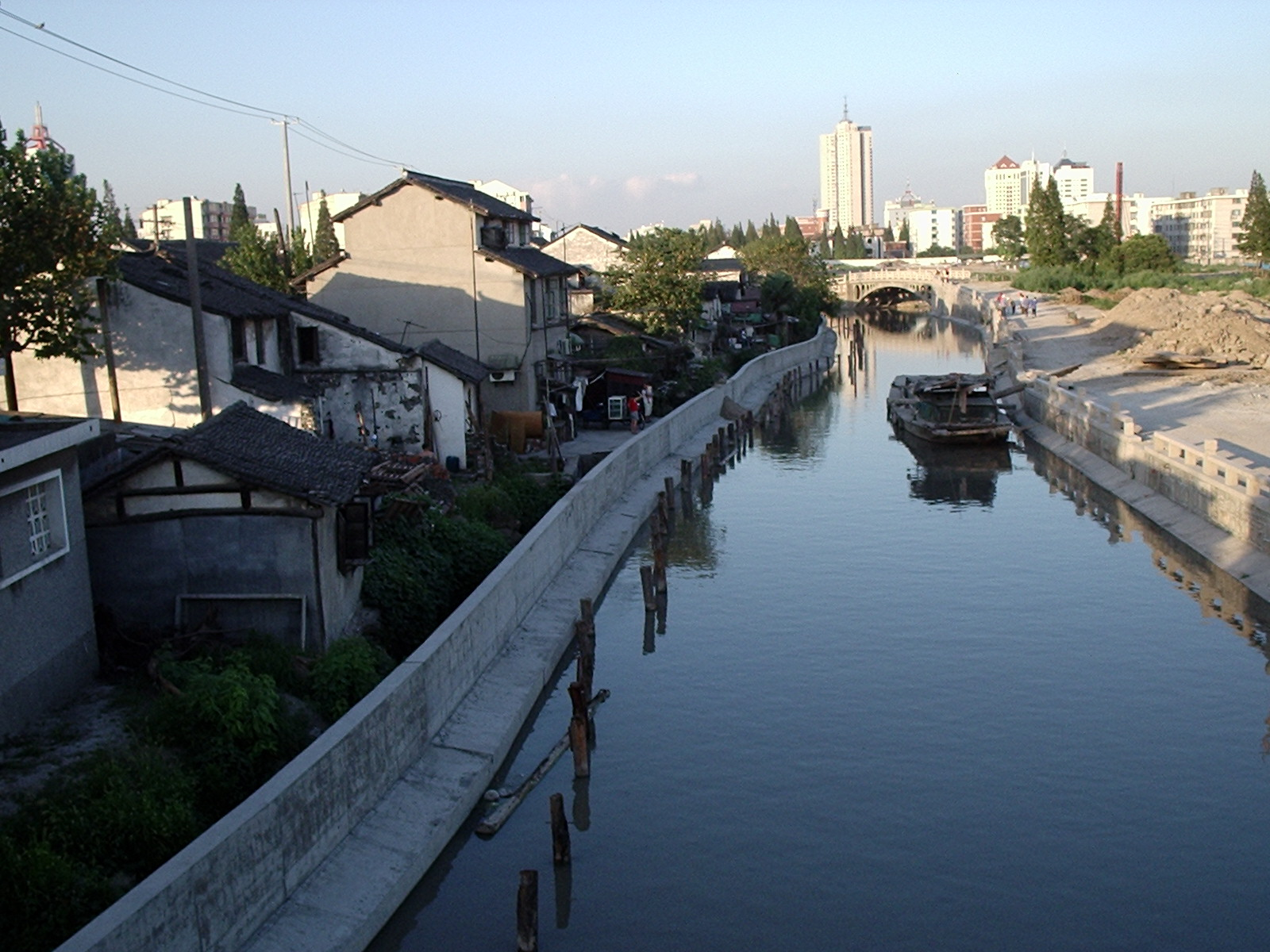 The buildings to the left, as well as the somewhat run-down boat, present a stark contrast to the modern high-rise buildings behind.The land to the right of the canal had been levelled ready for development, suggesting these buildings would not remain for that much longer. Taken in Jia Ding, Shanghai.